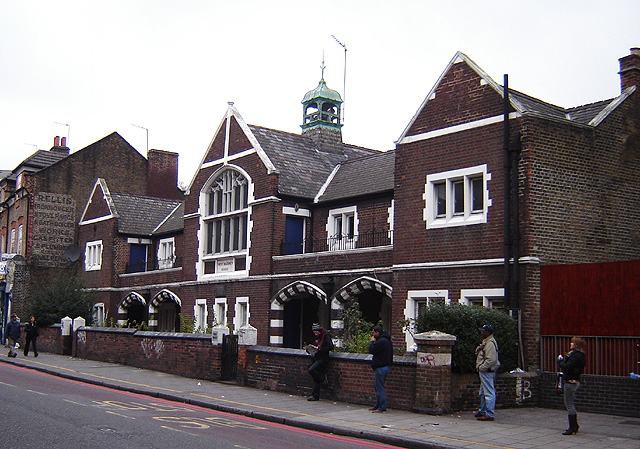 West Hackney Almshouses, Northwold Road, Stoke Newington, Hackney, London. 6 December 2005. Photographer: Fin Fahey.